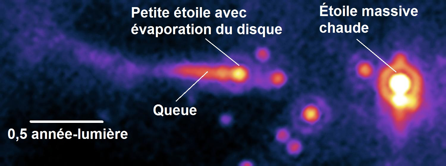 A Star's Close Encounter (French version)